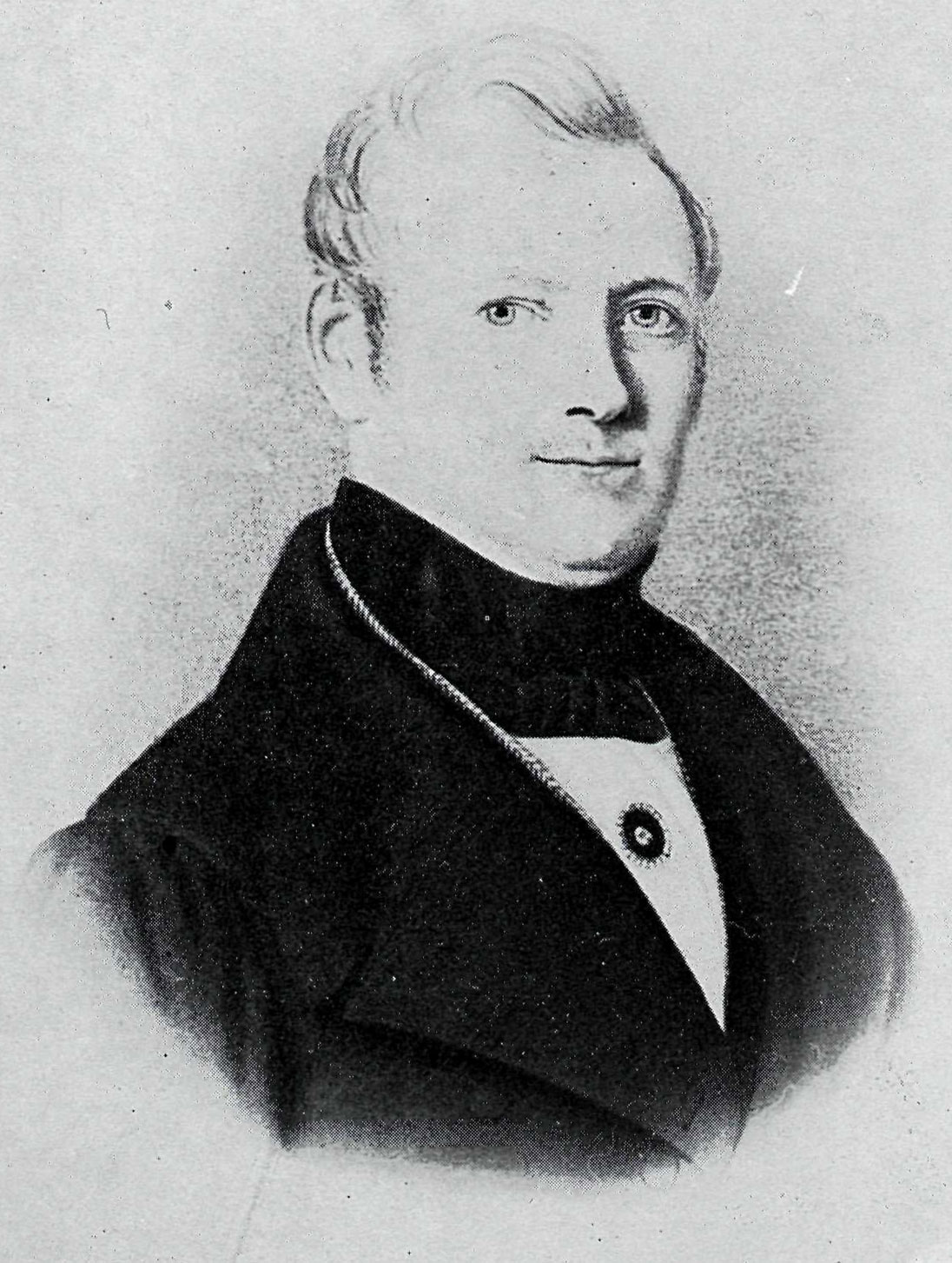 Drawing of Icelandic official Grímur Jónsson (1785-1849).